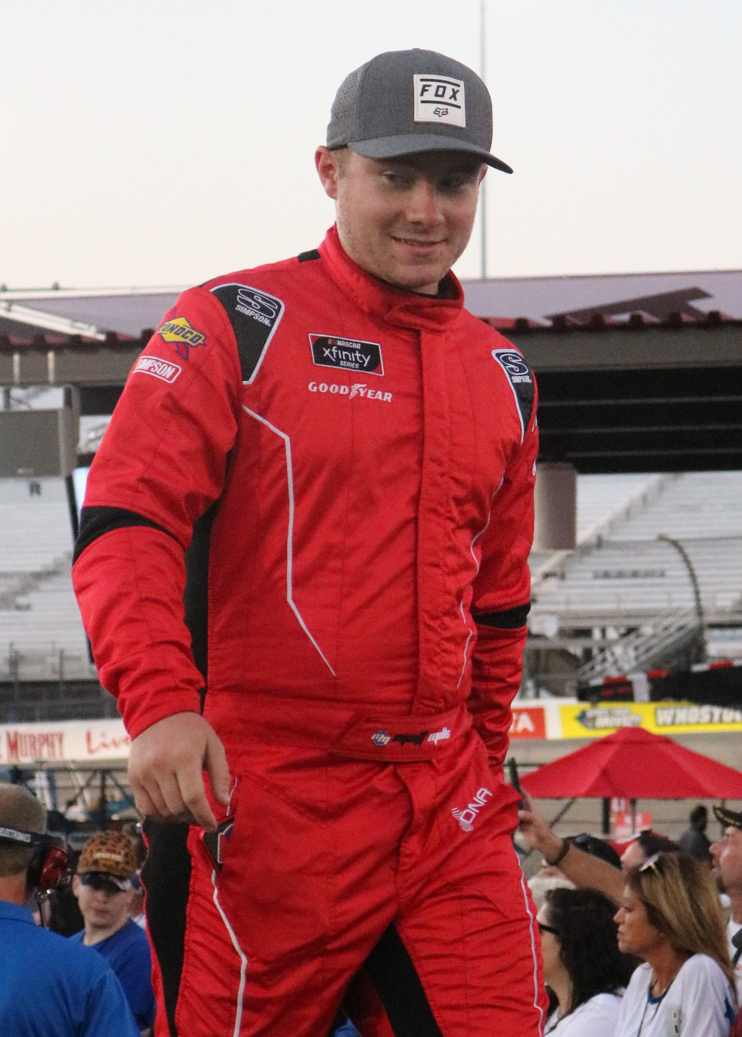 Depicted person: Matt Mills – American stock car racing driver